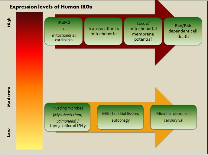 Figure5: Under conditions of moderate to low expression levels, IRGMs constantly survey for signals such as pathogen entry, starvation or increase in levels of IFNγ.Upon encounter with pathogen, mitochondrial fission pathways are turned on leading to autophagy ,microbial clearance promoting host cell survival. When highly expressed,IRGM binds to mitochondrial membrane bound lipid, cardiolipin and translocates into mitochondria which leads to depolarization and loss of mitochondrial membrane potential. This stimulates autophagy independent but pro-apoptotic factors bax/Bak dependent host cell death.